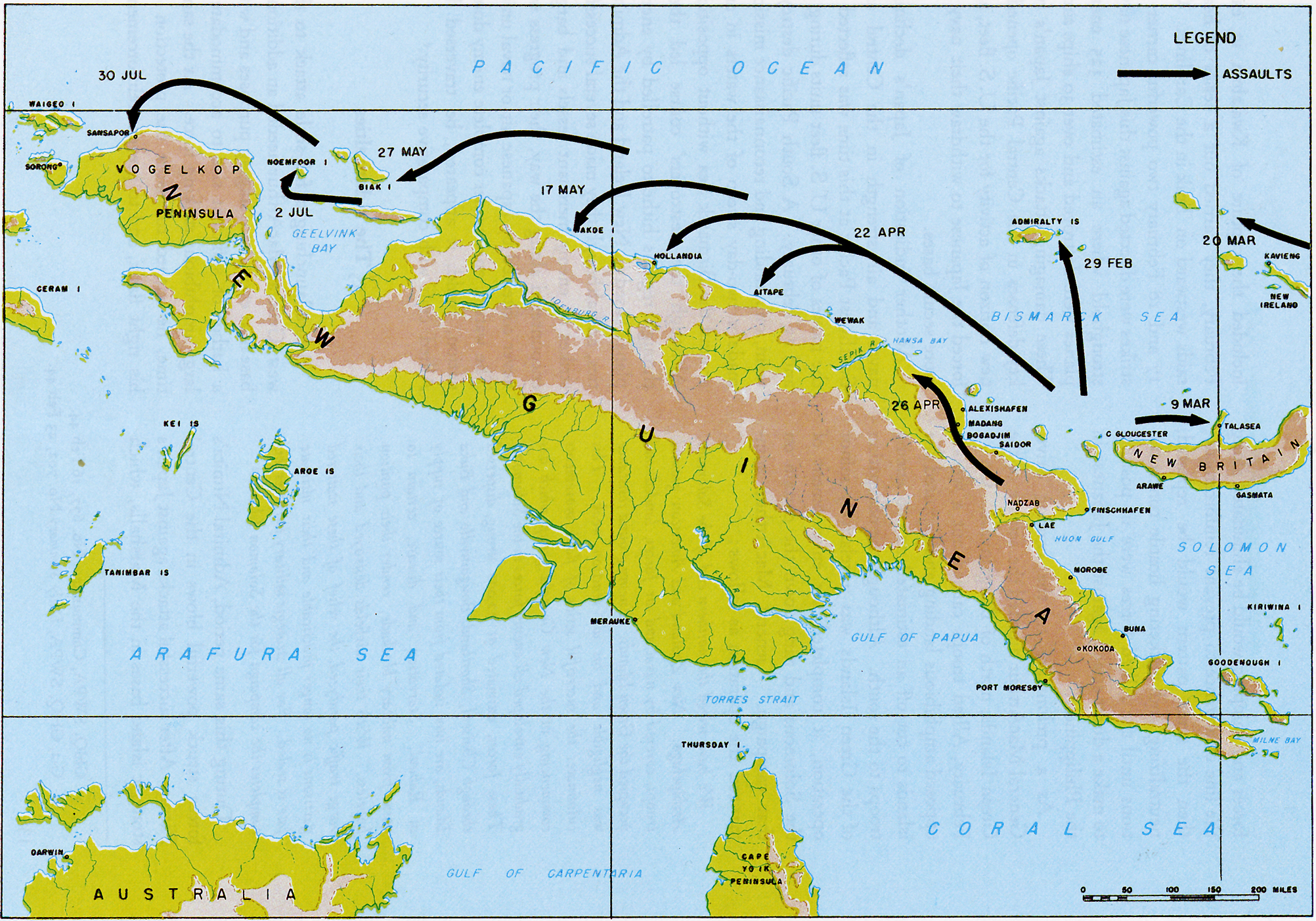 Landings of Allied forces to Western New Guinea, 1944